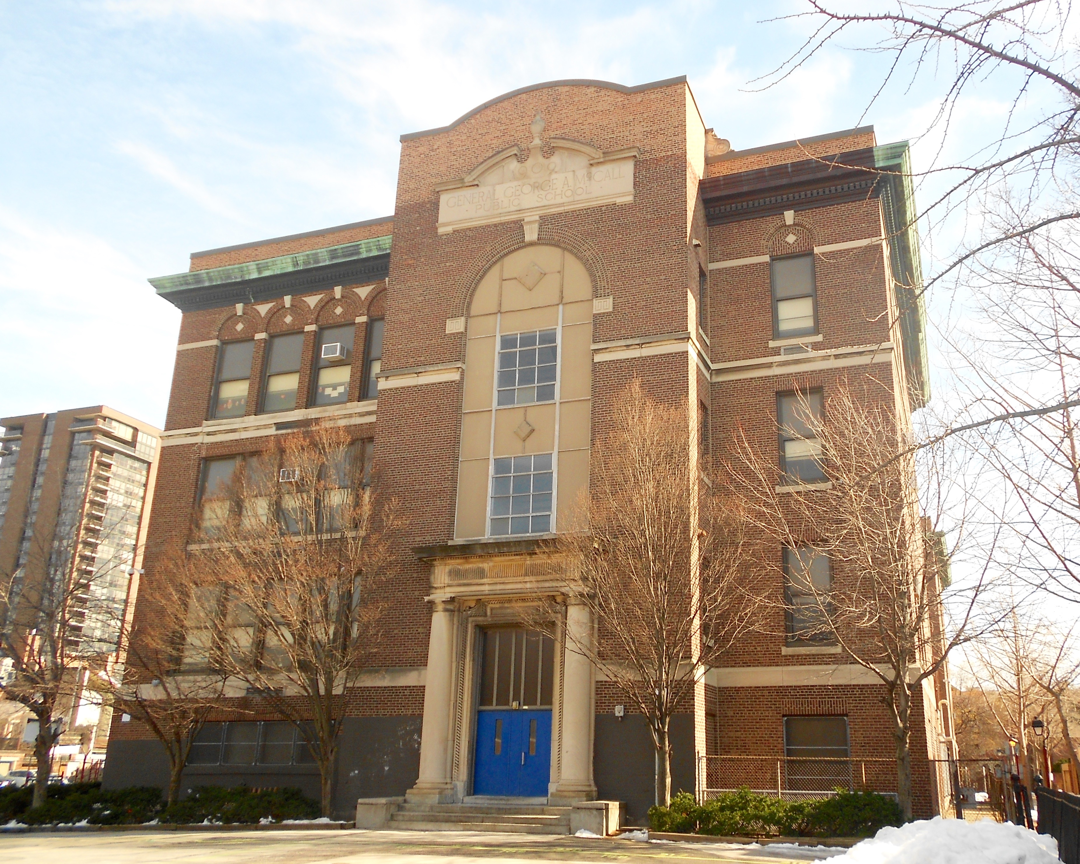 The General George A. McCall School 325 South 7th Street, in Philadelphia.